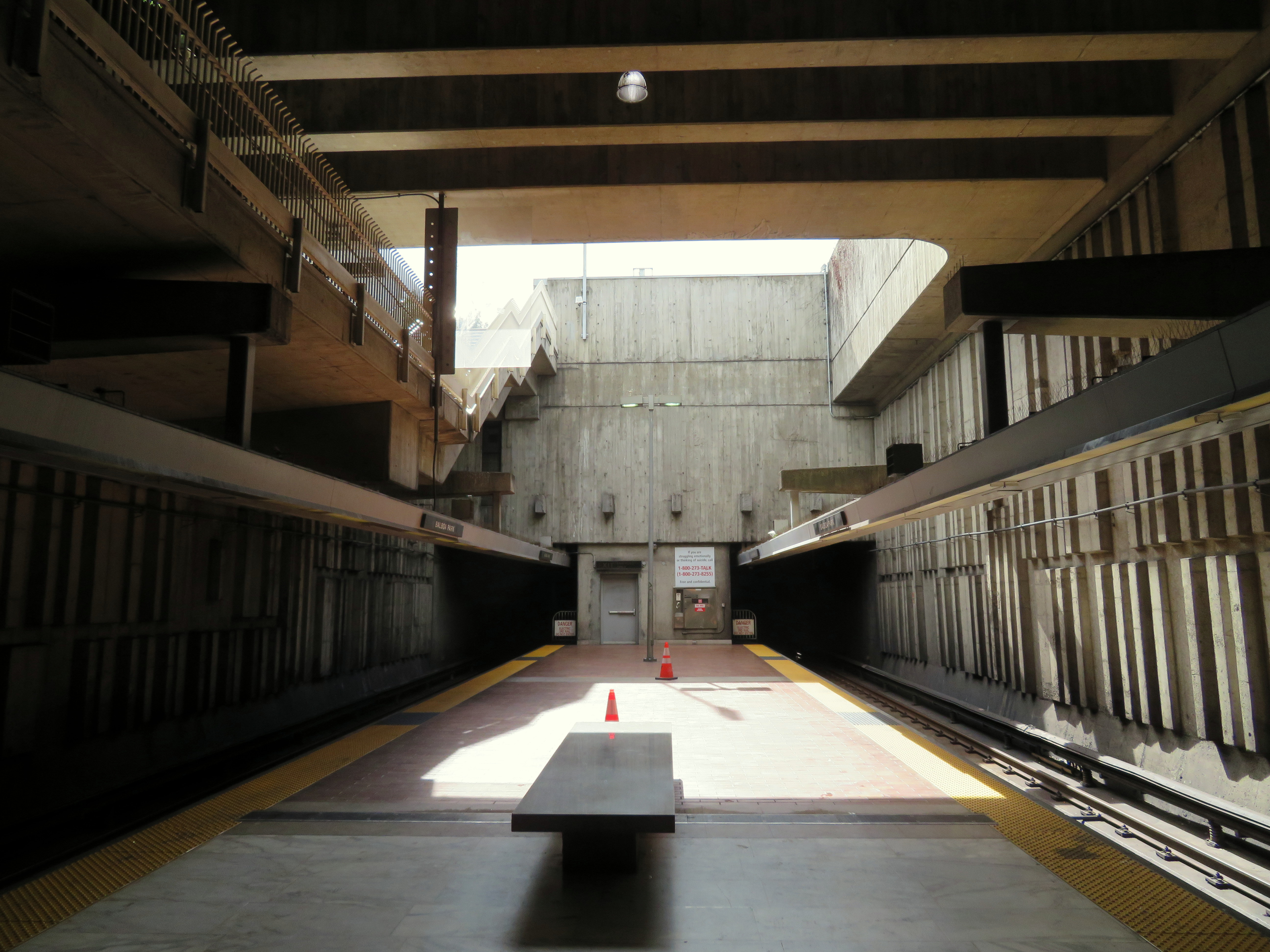 South end of the platform at Balboa Park station in March 2018